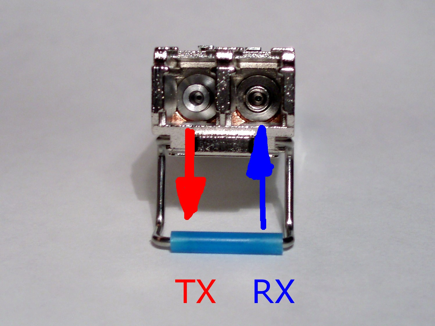 Front view of SFP module. RX and TX marked with Arrows